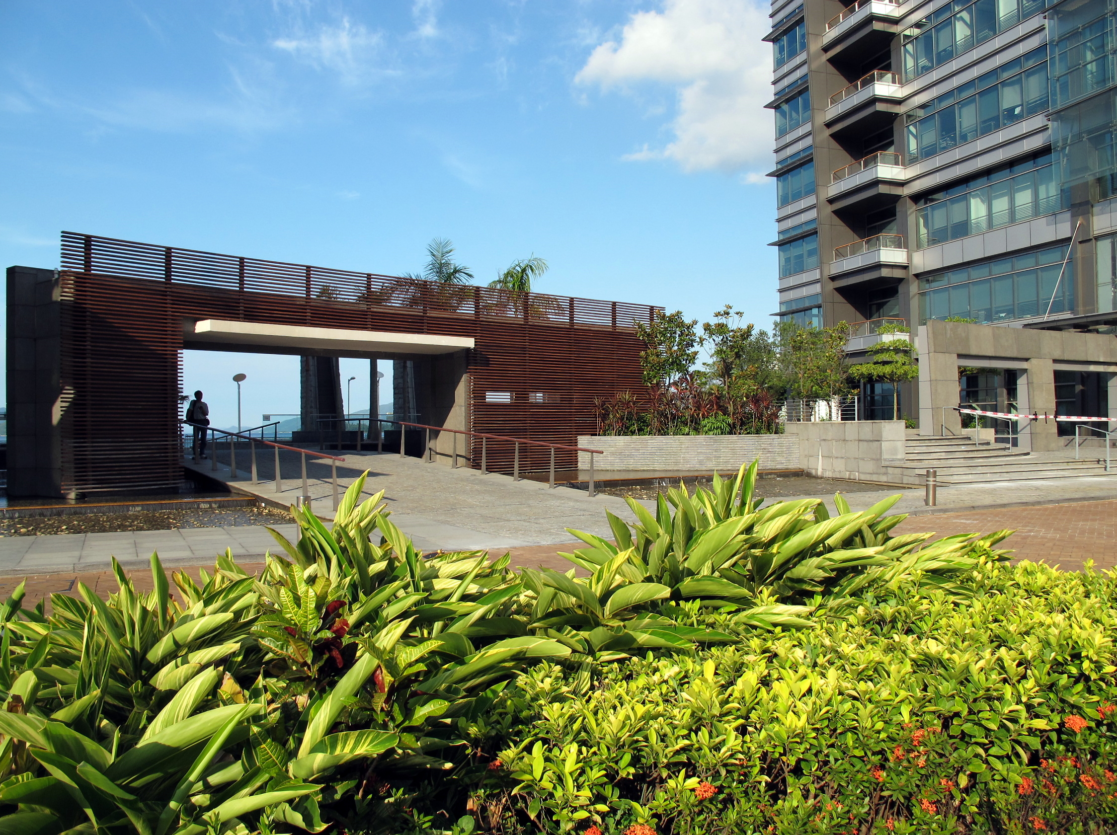 Hong Kong Science Park Phase 1